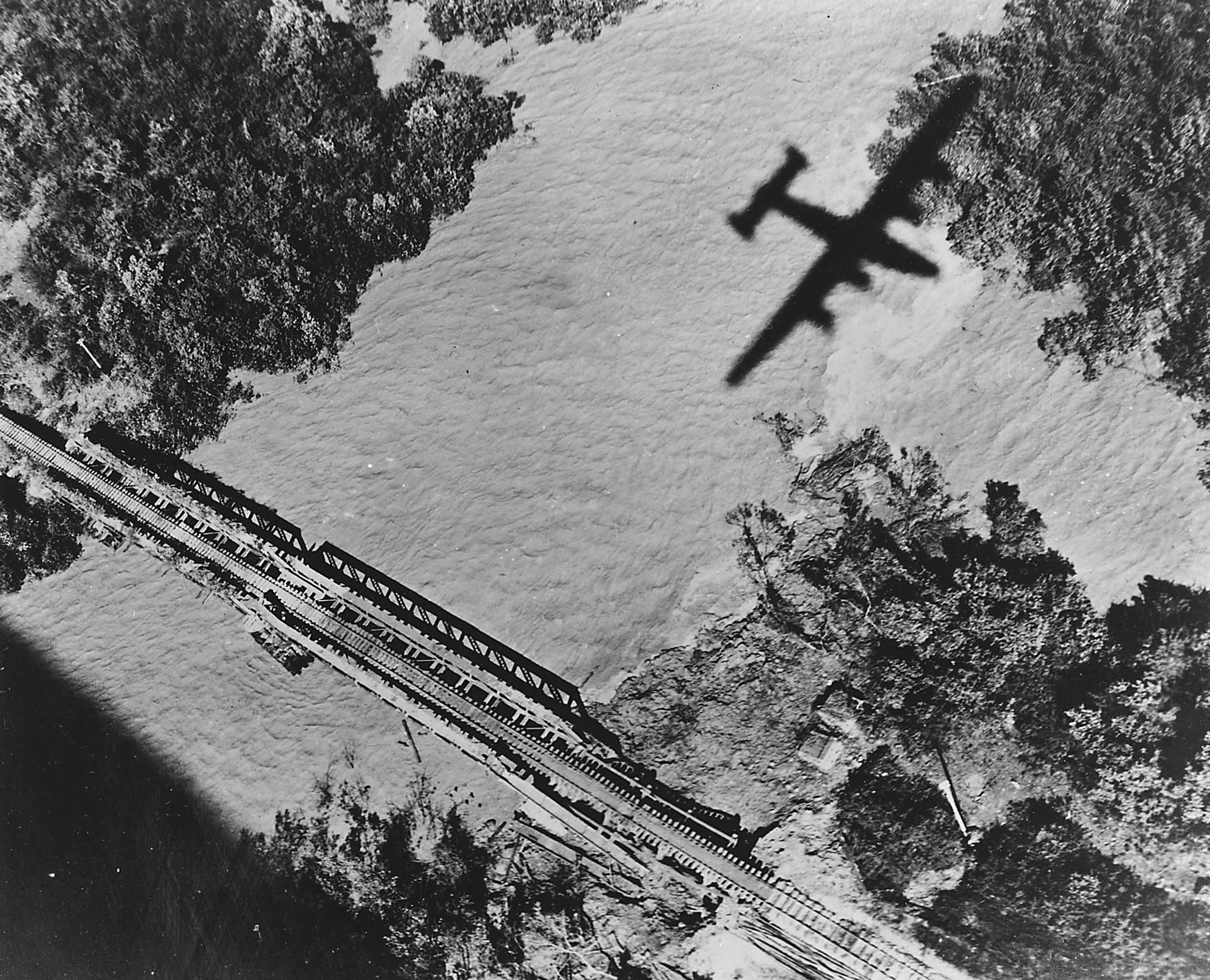 A U.S. Army Air Forces Consolidated B-24 Liberator of the 7th Bomb Group, attacking a bridge of the Moulmein-Ye rail line, 56 km (35 mi) south of Moulmein on 27 January 1945.